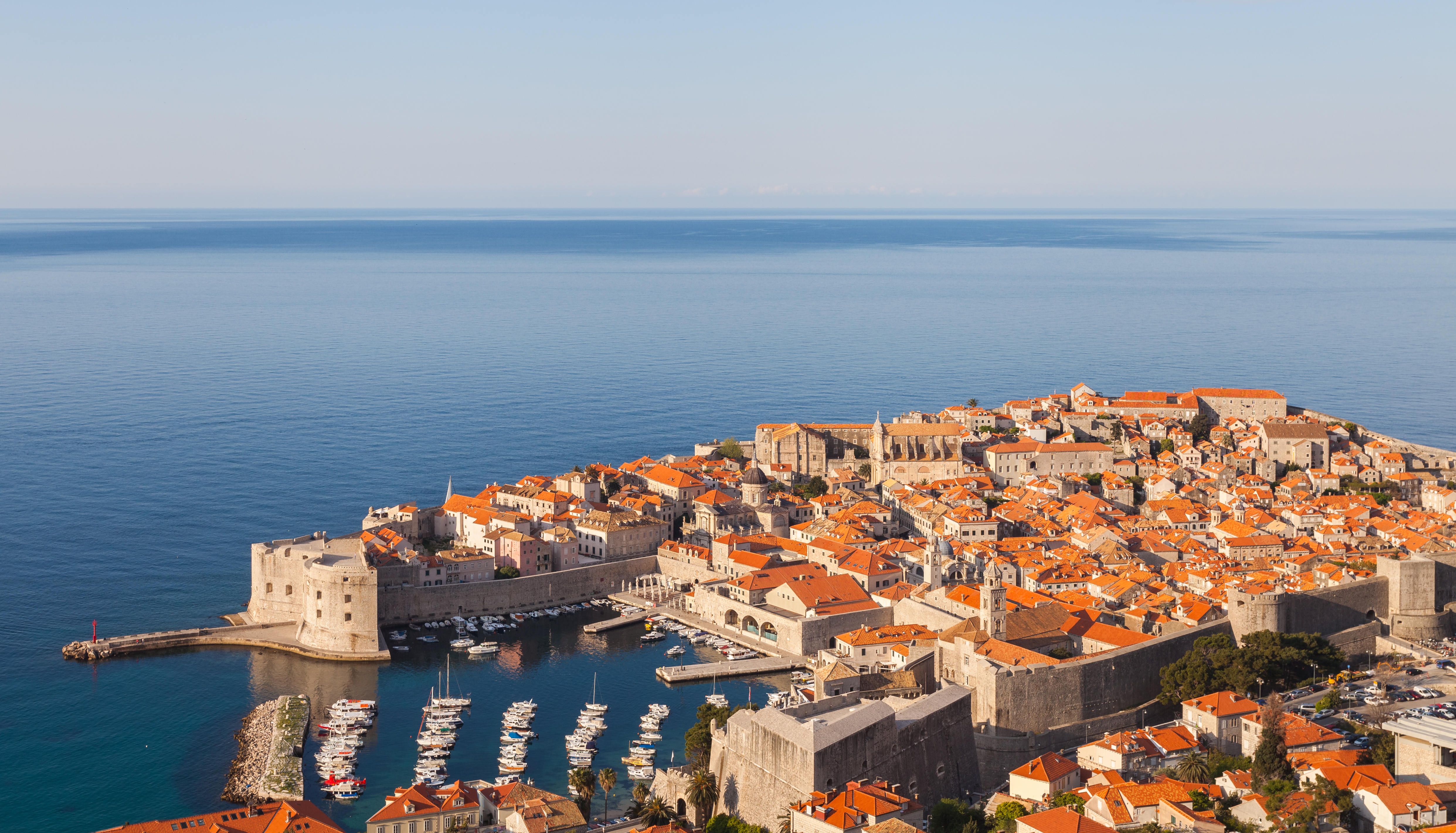 Panoramic view of the old city of Dubrovnik, Croatia